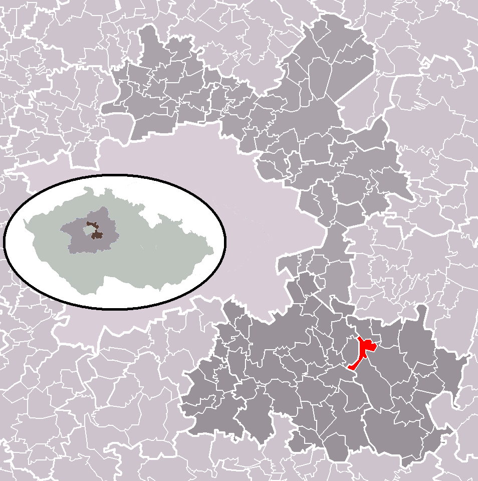 Location of Vyžlovka municipality within Prague-East District and administrative area of Říčany as a Municipality with Extended Competence.